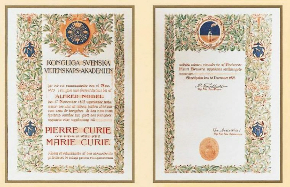 Marie and Pierre Curie´s Nobel in Physics won in 1903